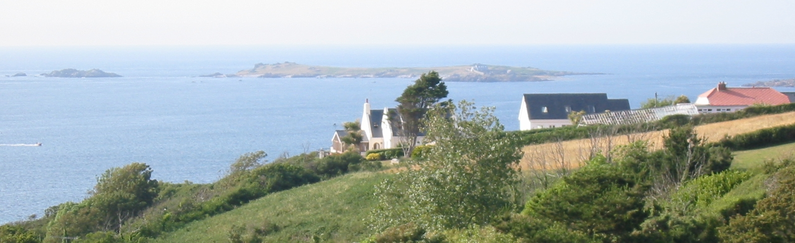 Lihou viewed from Torteval, Guernsey